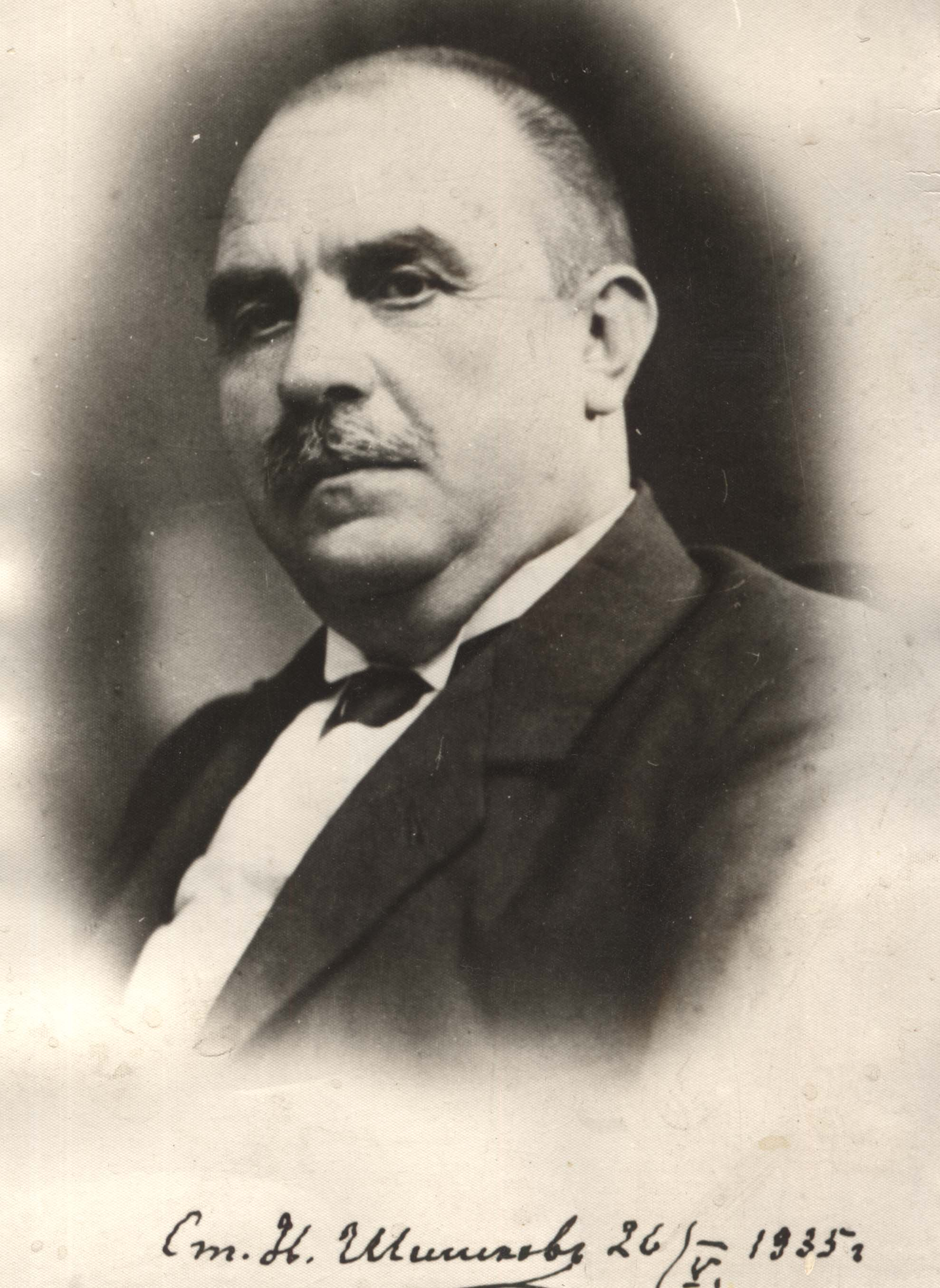 Стою Шишков - основателят на Историческия музей в гр. Смолян (1935)